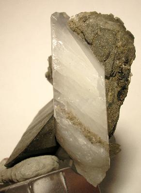 Whewellite Locality: Schlema, Schlema-Hartenstein District, Erzgebirge, Saxony, Germany (Locality at ) Size: thumbnail, 2.9 x 2.8 x 2.3 cm Whewellite Large and outstanding representative of the species, from teh CLASSIC and old locality for which it is most famous. The main crystal is white, tabular, and lustrous with a silky sheen to it. The excellent sharp form, translucent nature, and beautiful way this sits in the matrix makes it a very aesthetic thumb. BETTER IN PERSON!!! 2.9 x 2.8 x 2.3 cm